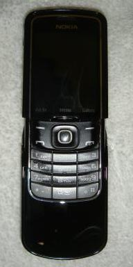 I snapped the picture myself.